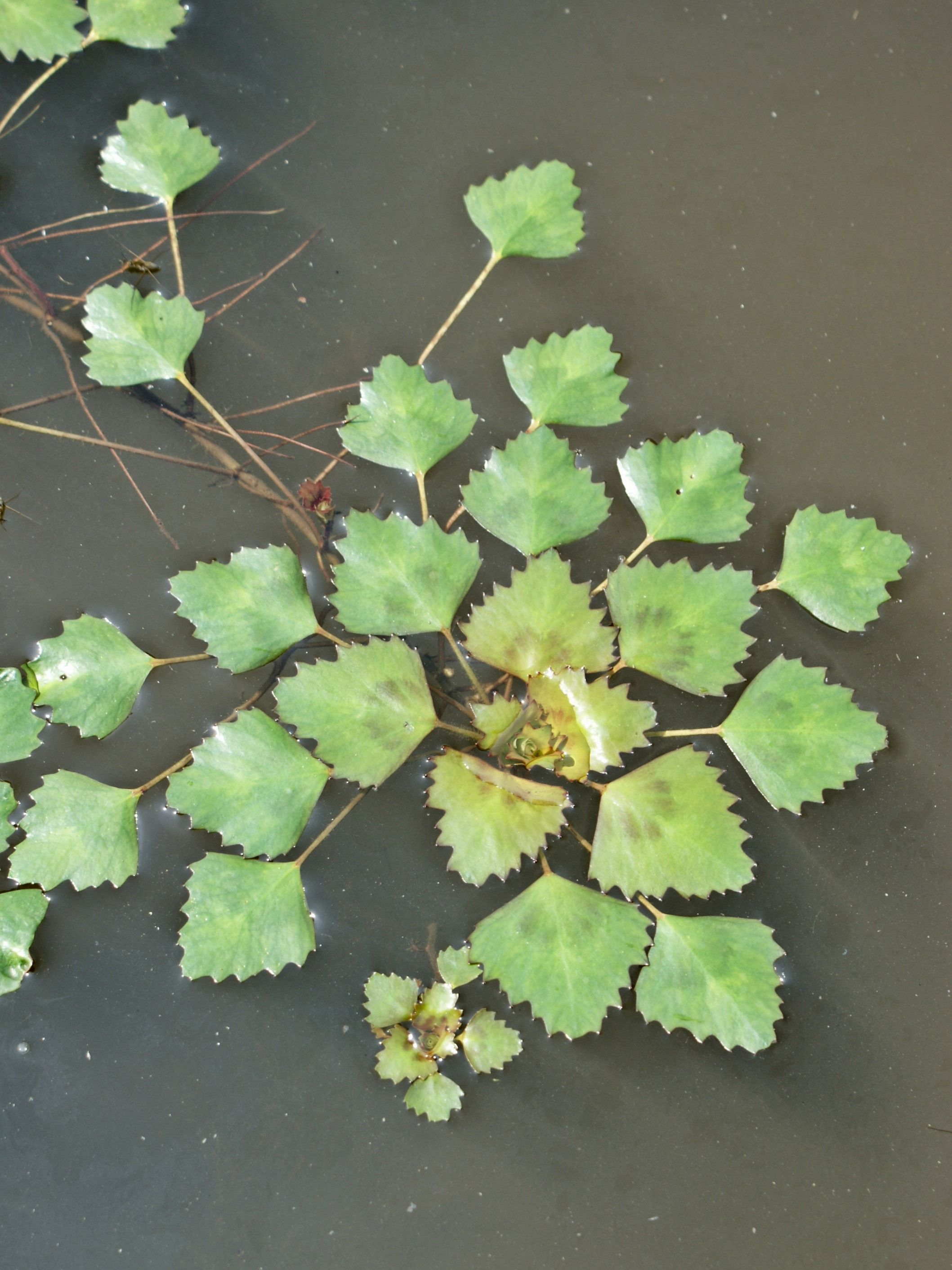 Trapa natans in the Arboretum in Glinna (NW Poland)